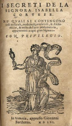 I secreti d'Isabella Cortese is a compilation of alchemical and cosmetology recipes - Italy